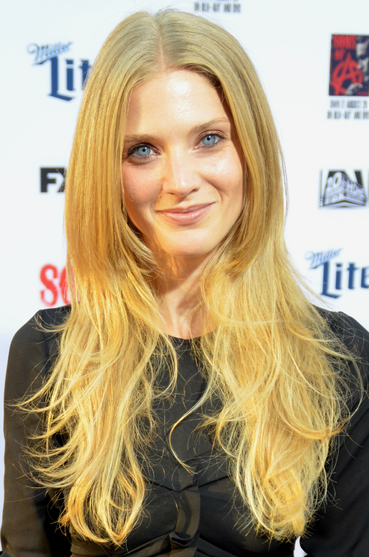 Actress Winter Ave Zoli at the Sons of Anarchy FX Premiere Event at the TCL Chinese Theatre in Hollywood on September 22, 2014.